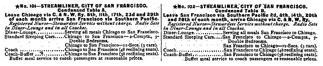 Consists of the Chicago-Oakland/San Francisco C&NW-UP-SP Streamliner City of San Francisco TR 101-102 (June, 1936)